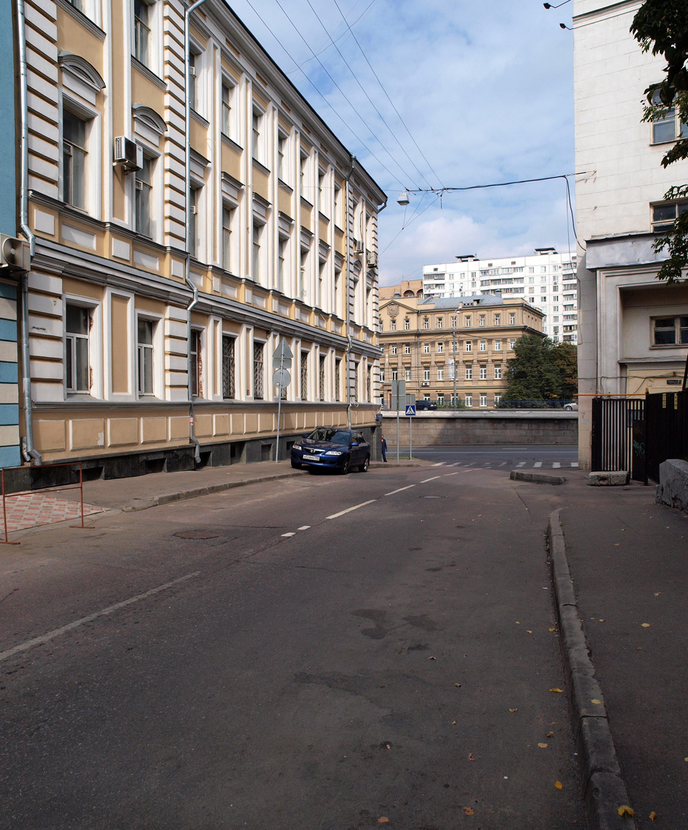 Trubnaya Street, Moscow